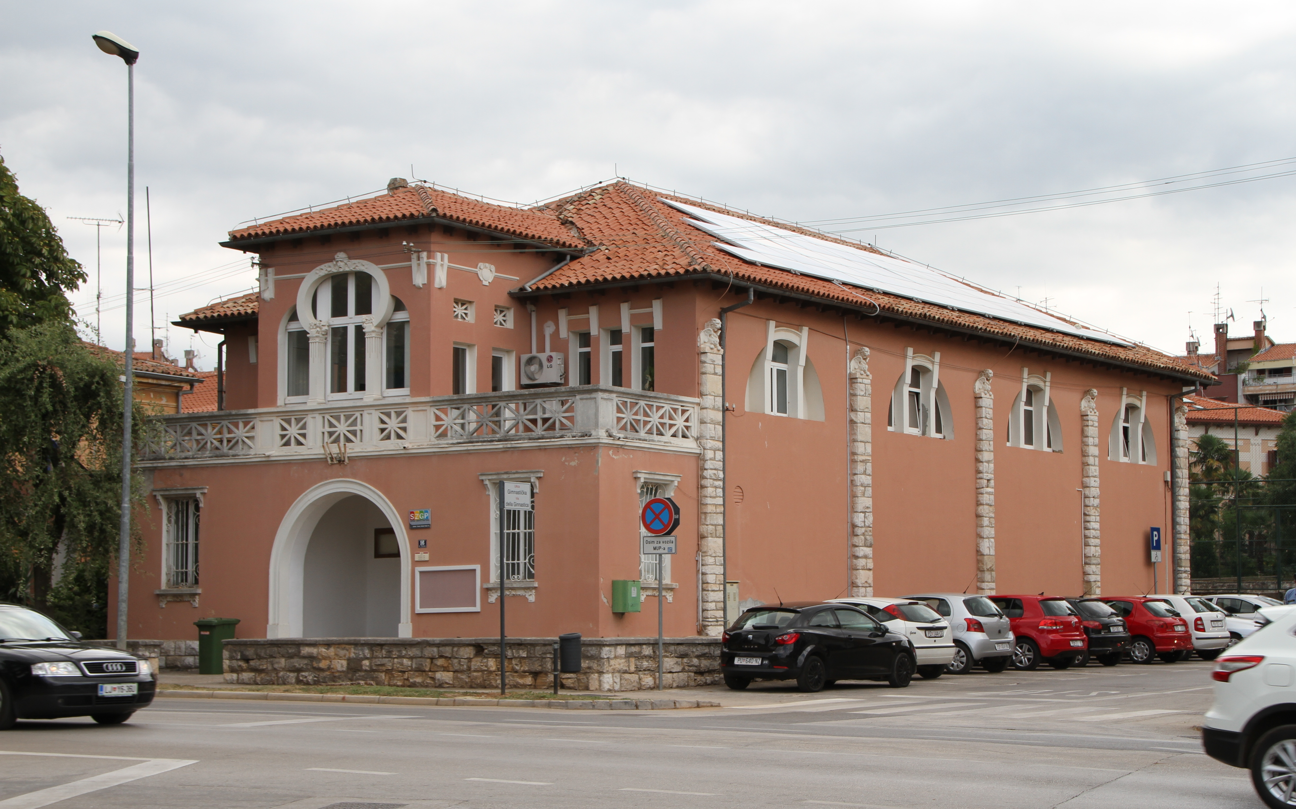 Lower city Court of Porec, Croatia